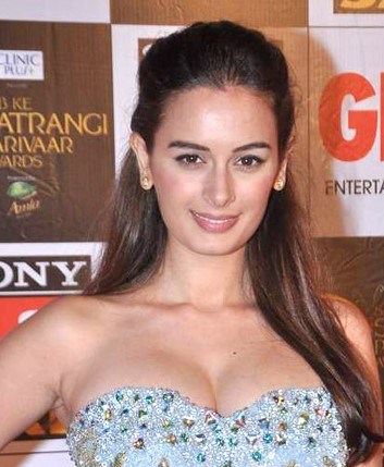 Evelyn Sharma at SAB Ke Satrangi Parivaar Awards